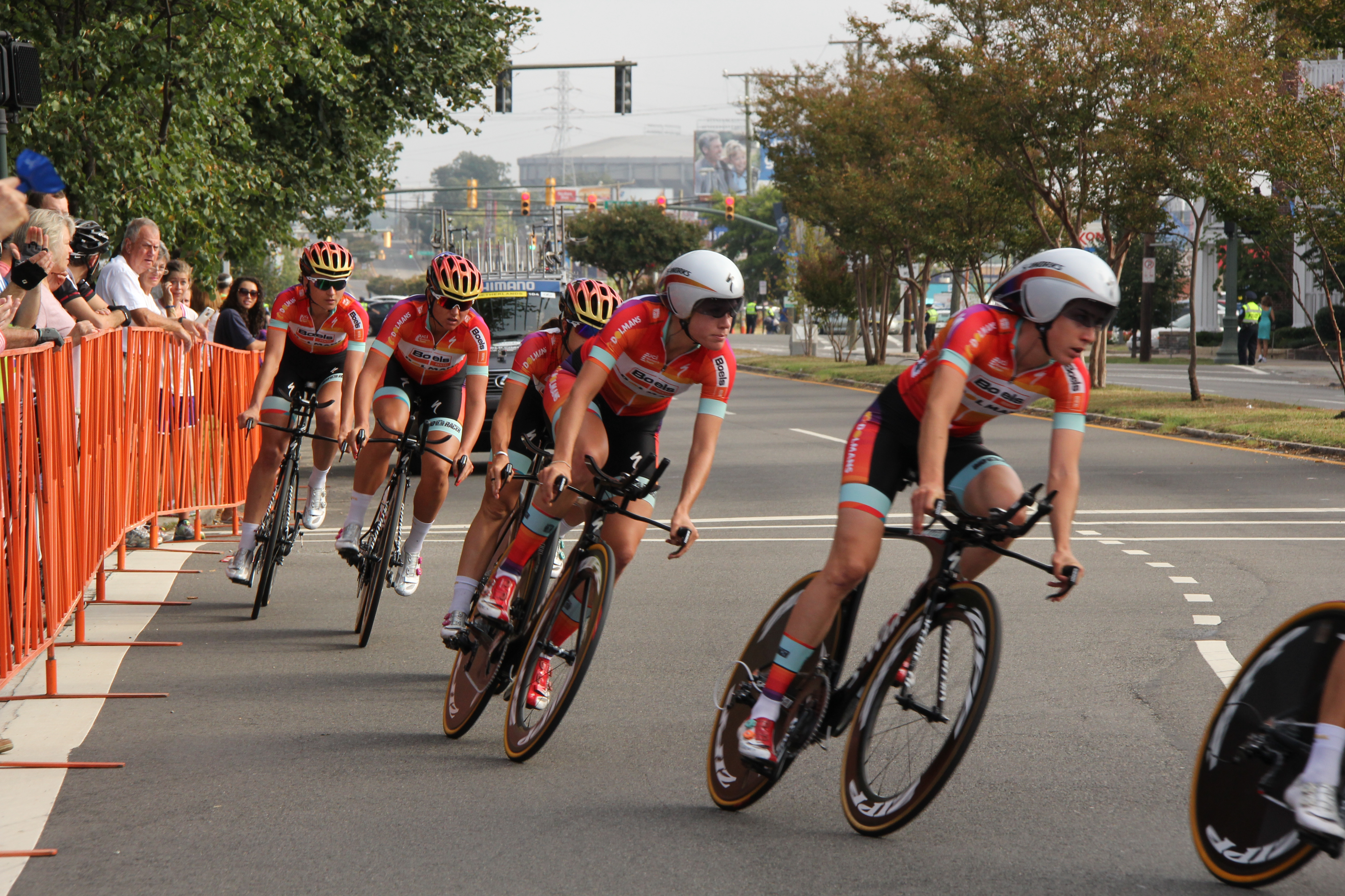 The world has come to Richmond. Welcome! Bienvenidos! Willkommen! 2015 UCI Road World Championships, in Richmond, United States